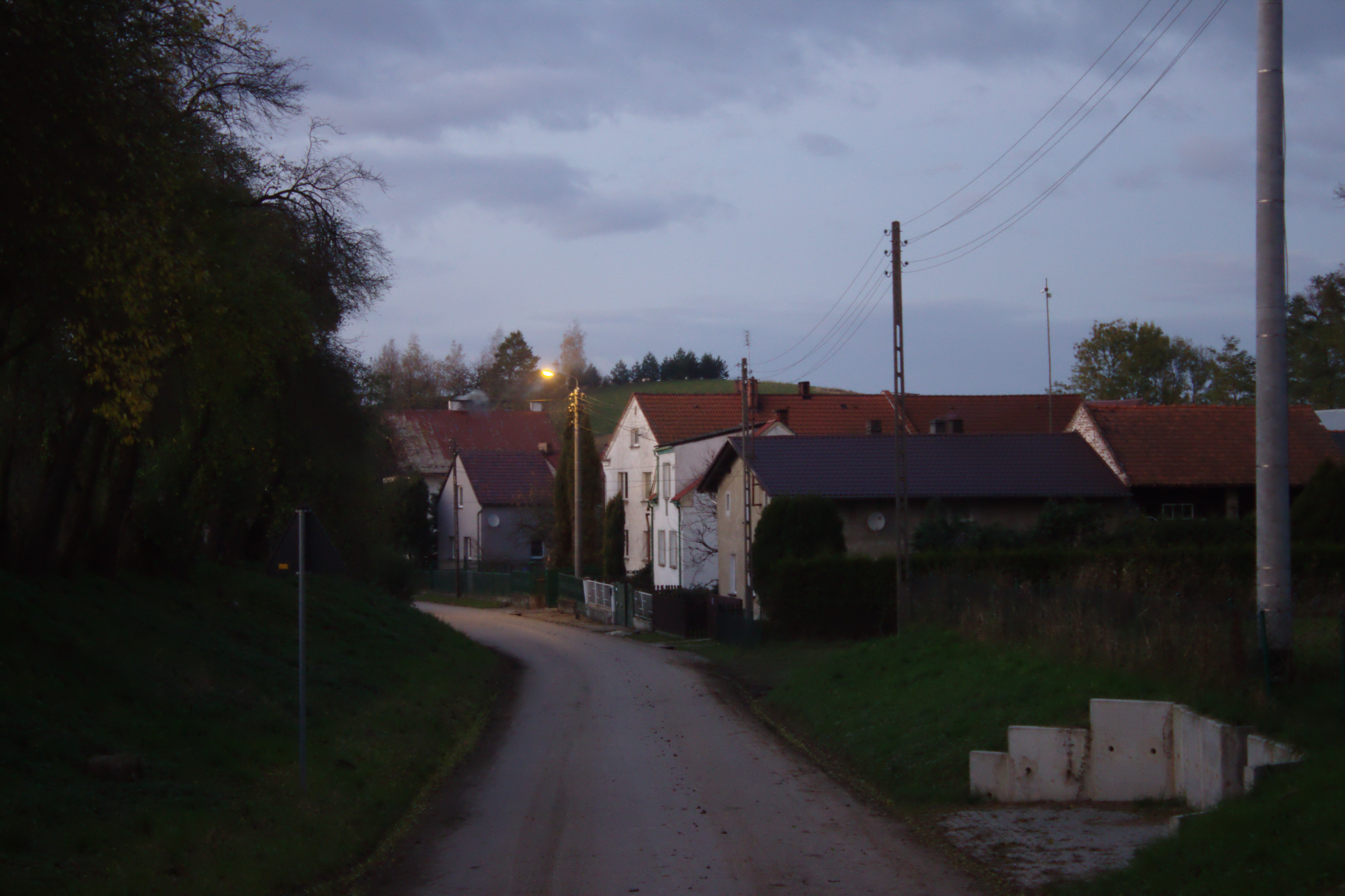 A road in the village of Jastrzębie near Rudnik, Poland